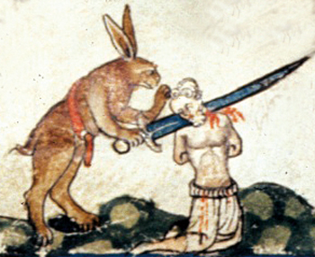 Smithfield Decretals, BL, Royal 10 E IV, f. 61v - detail.